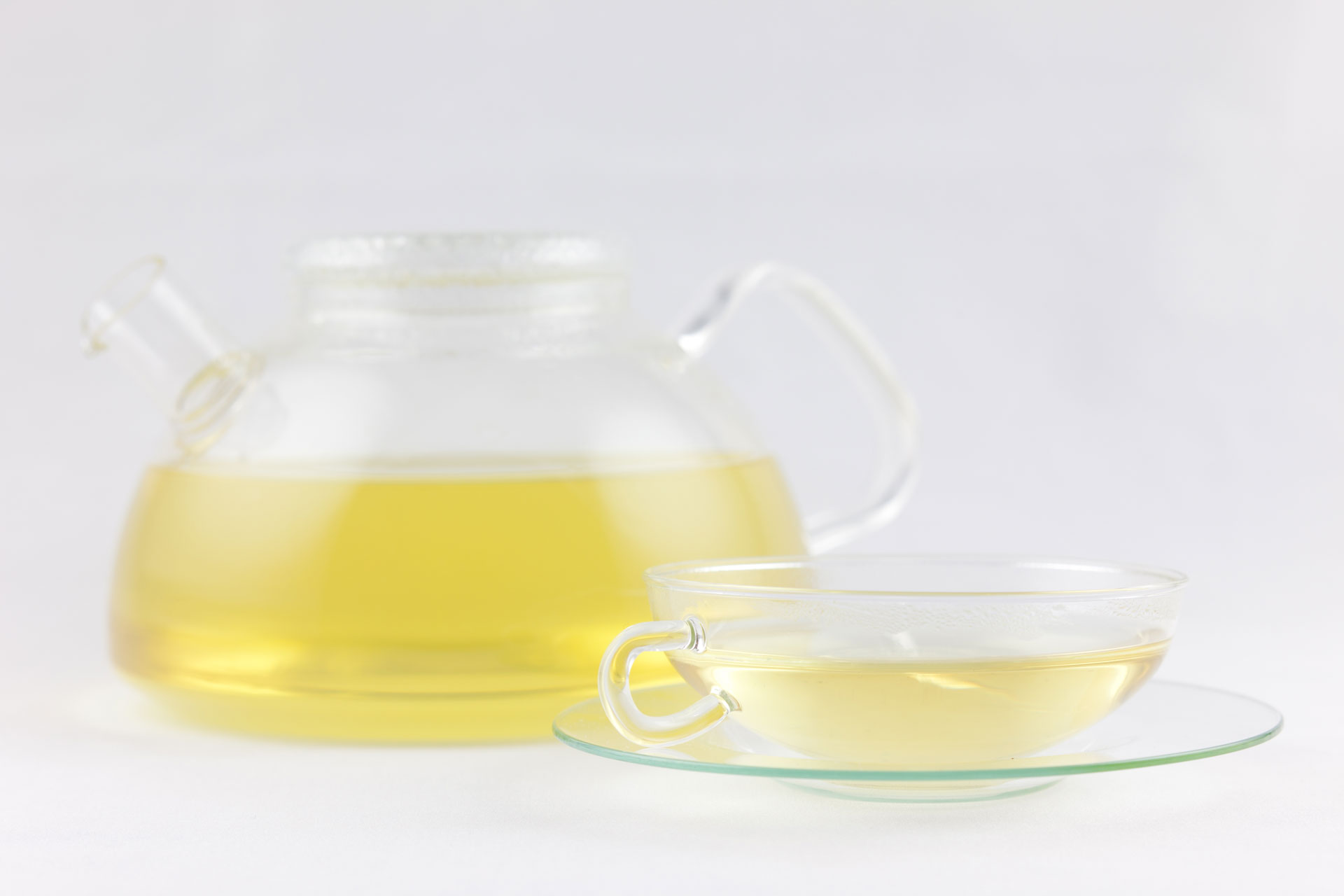 Chinese White Monkey Green Tea freshly brewed in glass teapot